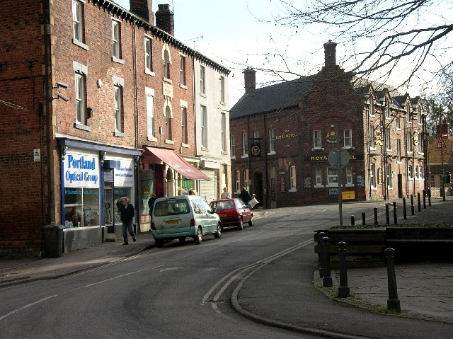 Eckington Village Centre (NE Derbyshire) View from Market Street showing Royal Hotel situated at the junction of Station Road and Southgate.